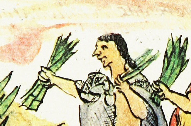 An Aztec man from codex.